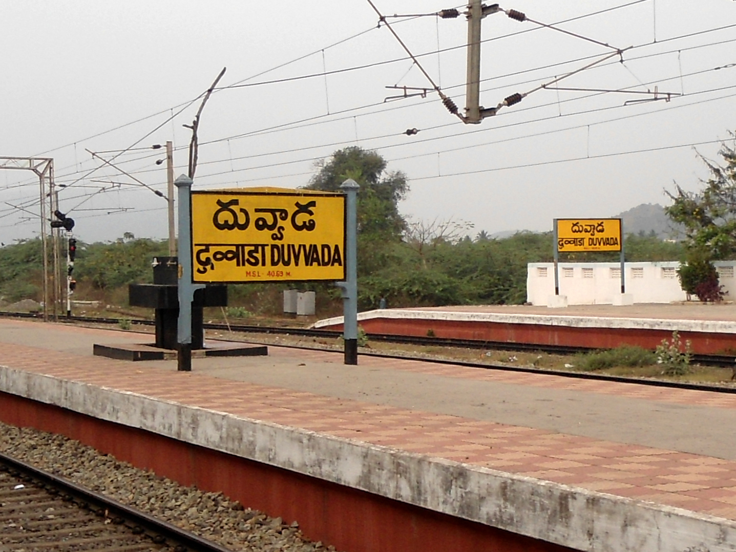 Duvvada Railway station name board